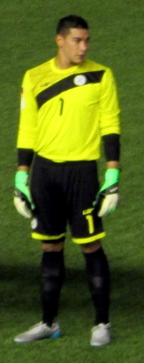 Neil Etheridge with the Philippine national team. Philippines v. Maldives friendly. September 3, 2015.